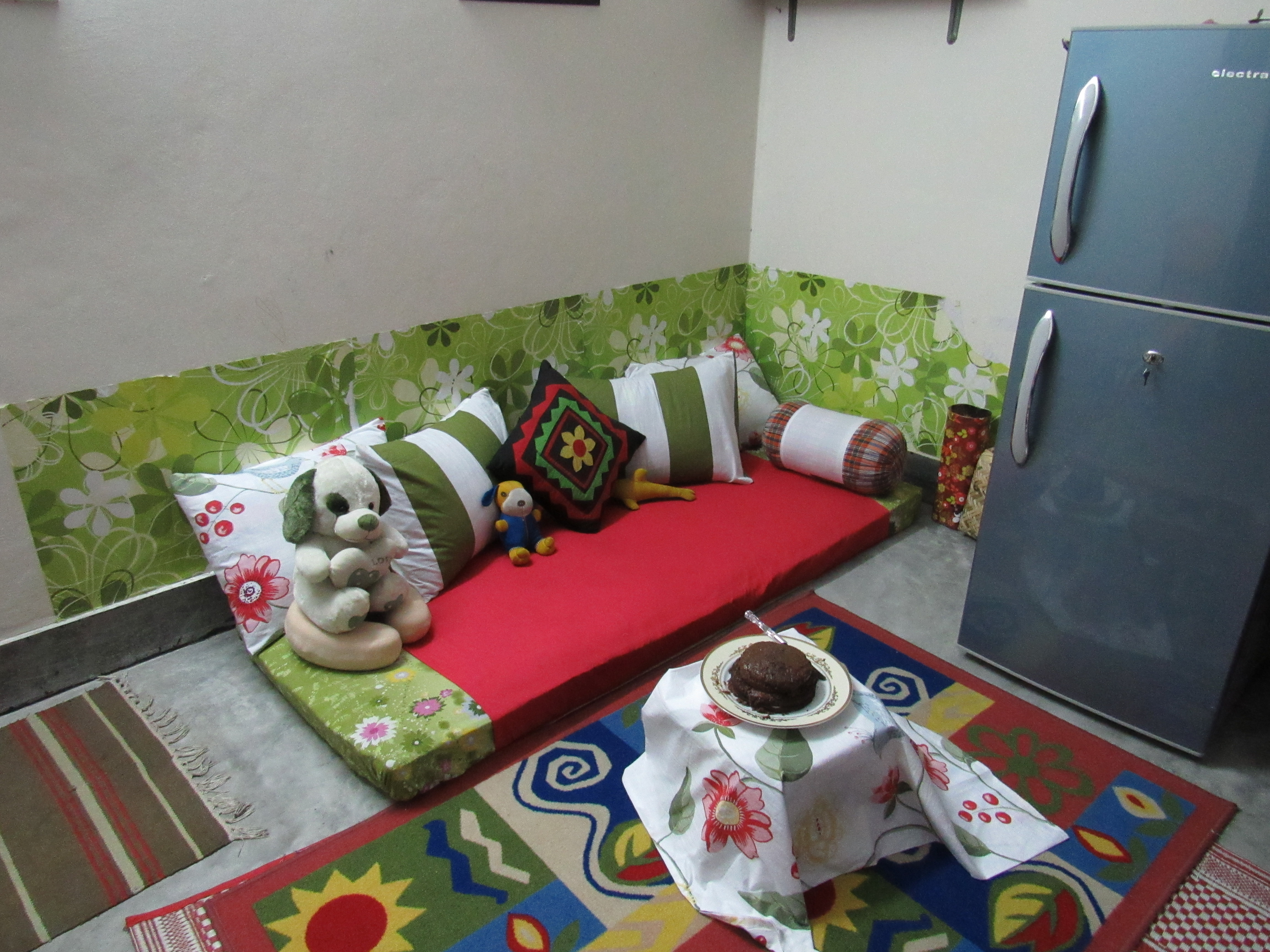 Common place of studio apartment